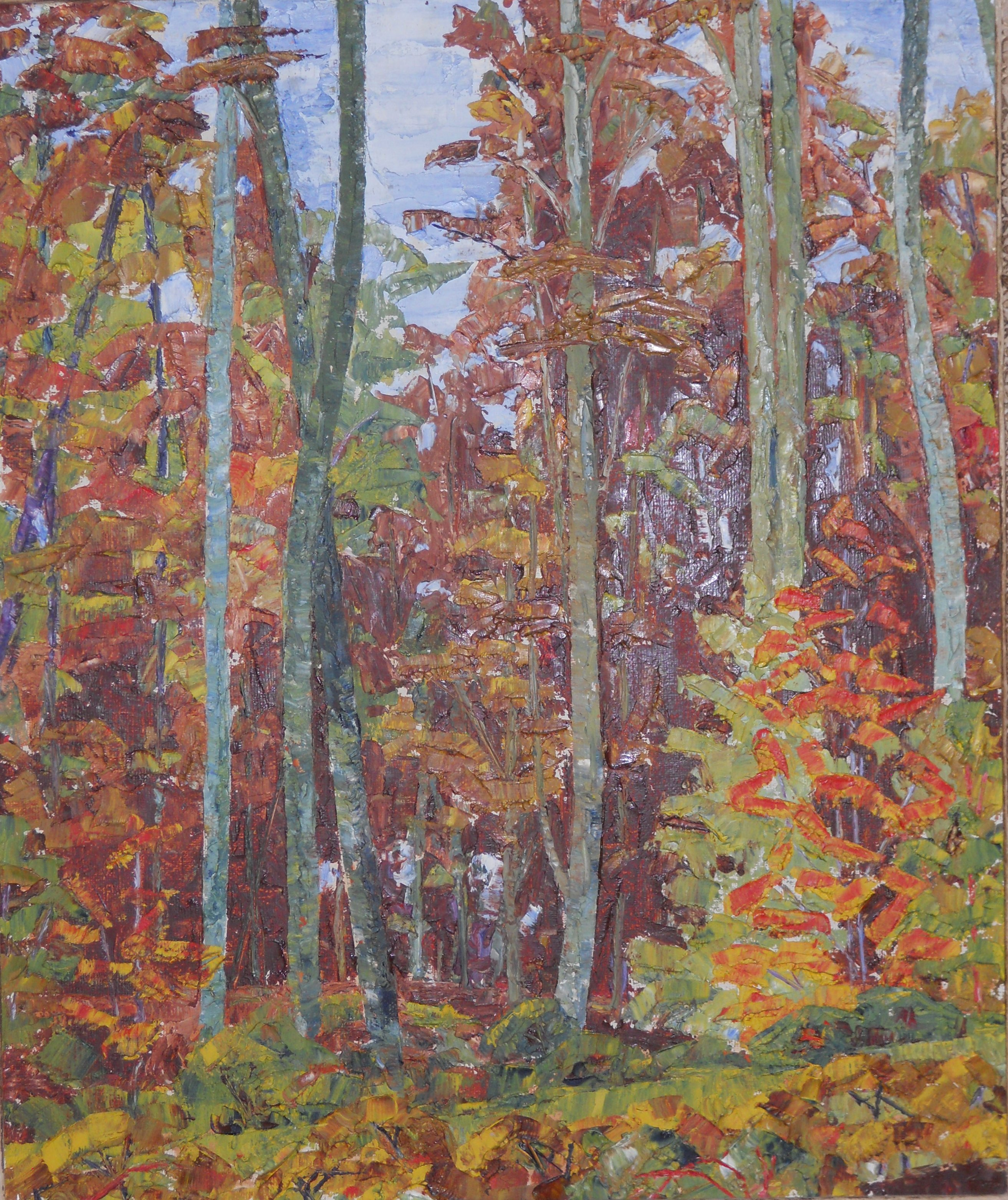 John Crosfield painted this Beechwood near Beaconsfield, England in oil and palette knife on canvas in 1931